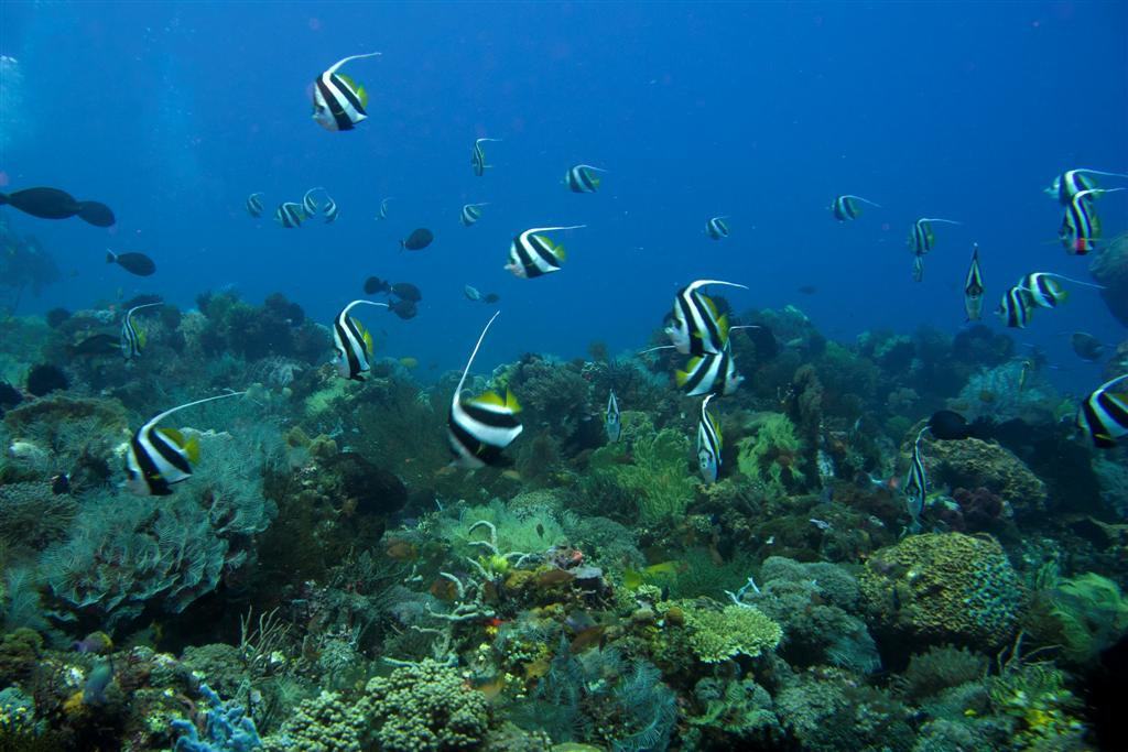 Butterfly Fishes